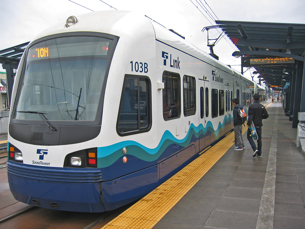 Two Skate boarders boarding light rail train. This work is licensed under a Creative Commons Attribution 3.0 United States License.